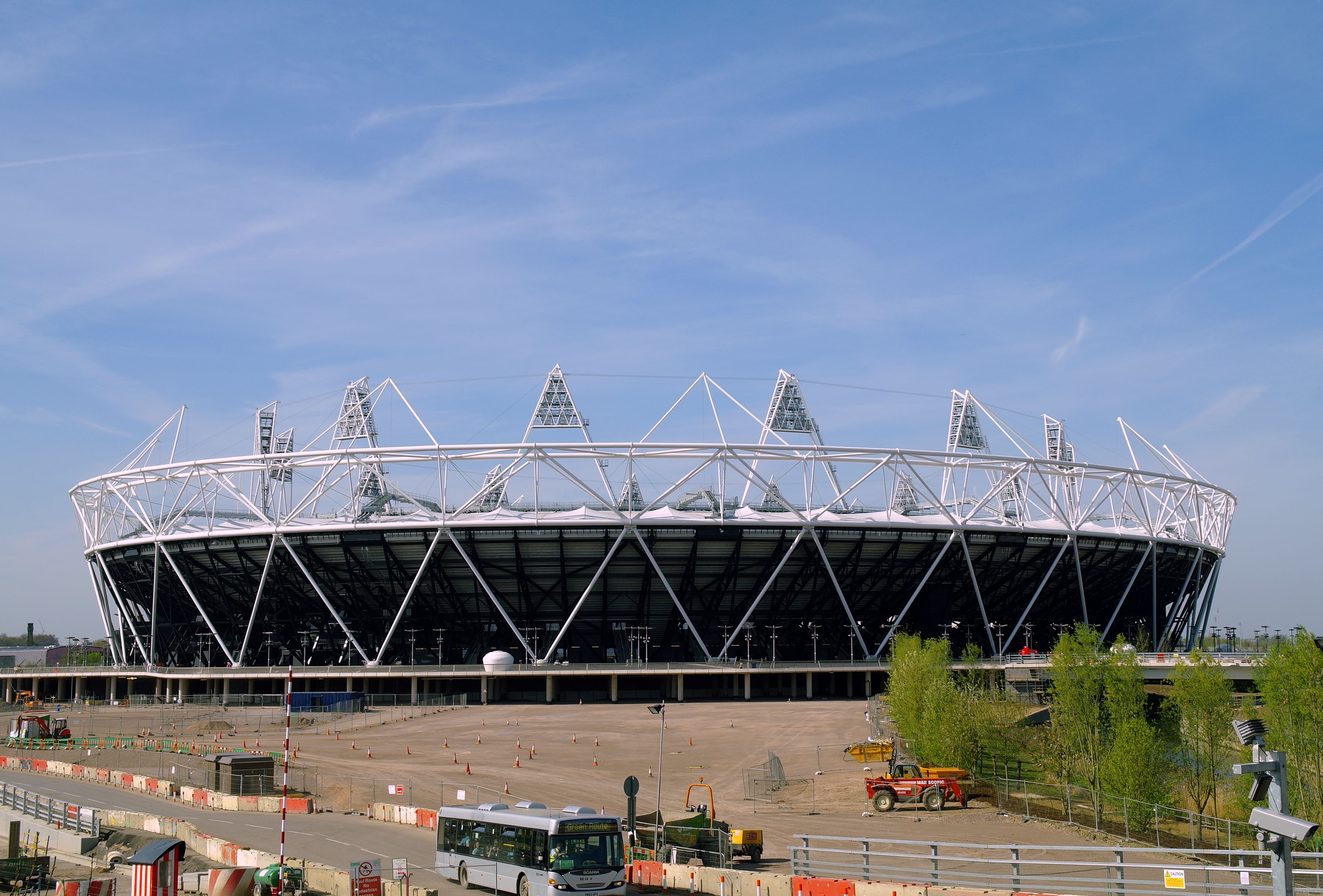 London Olympic Park